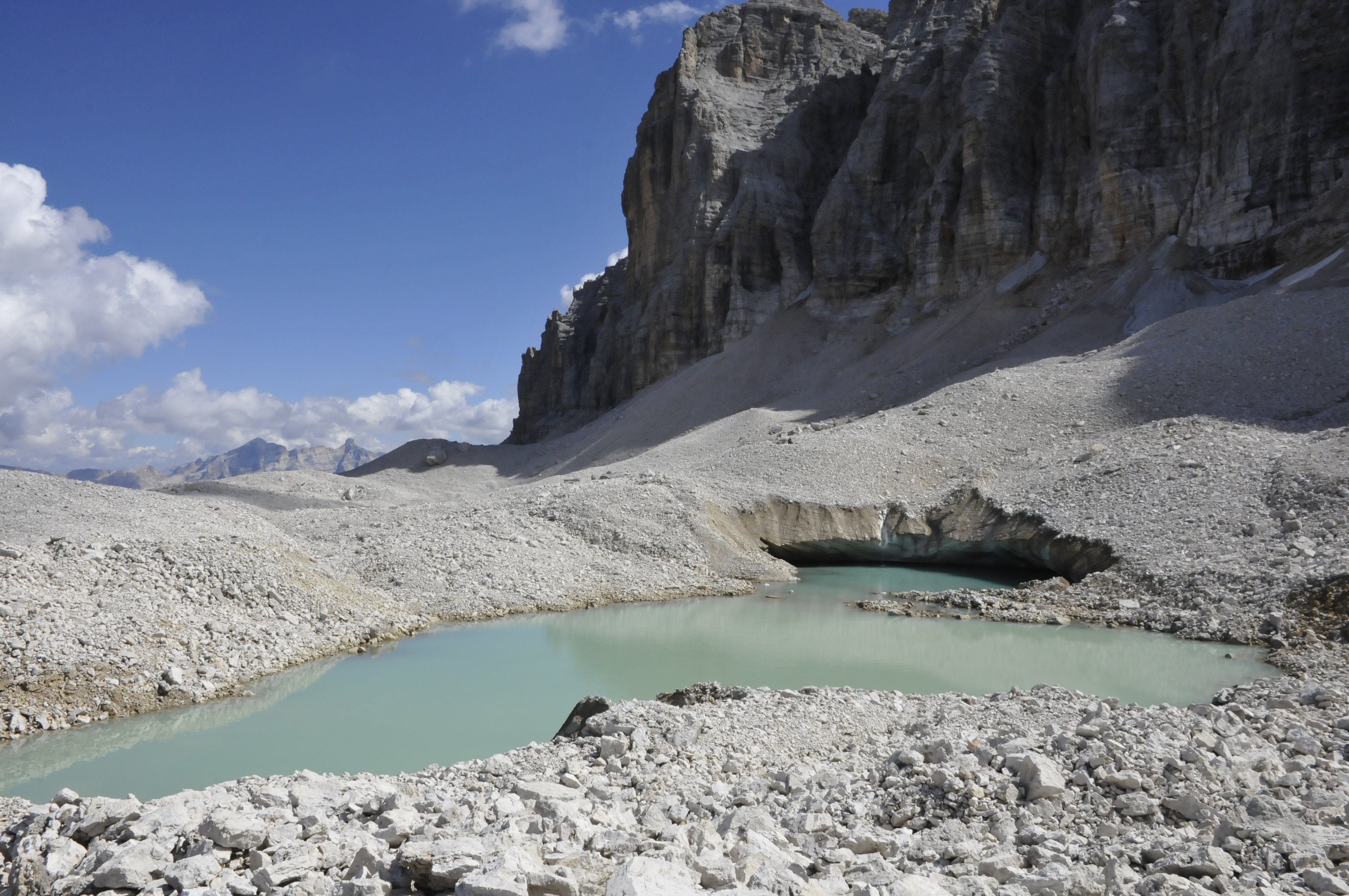 Lech dl Dragon in 2011.